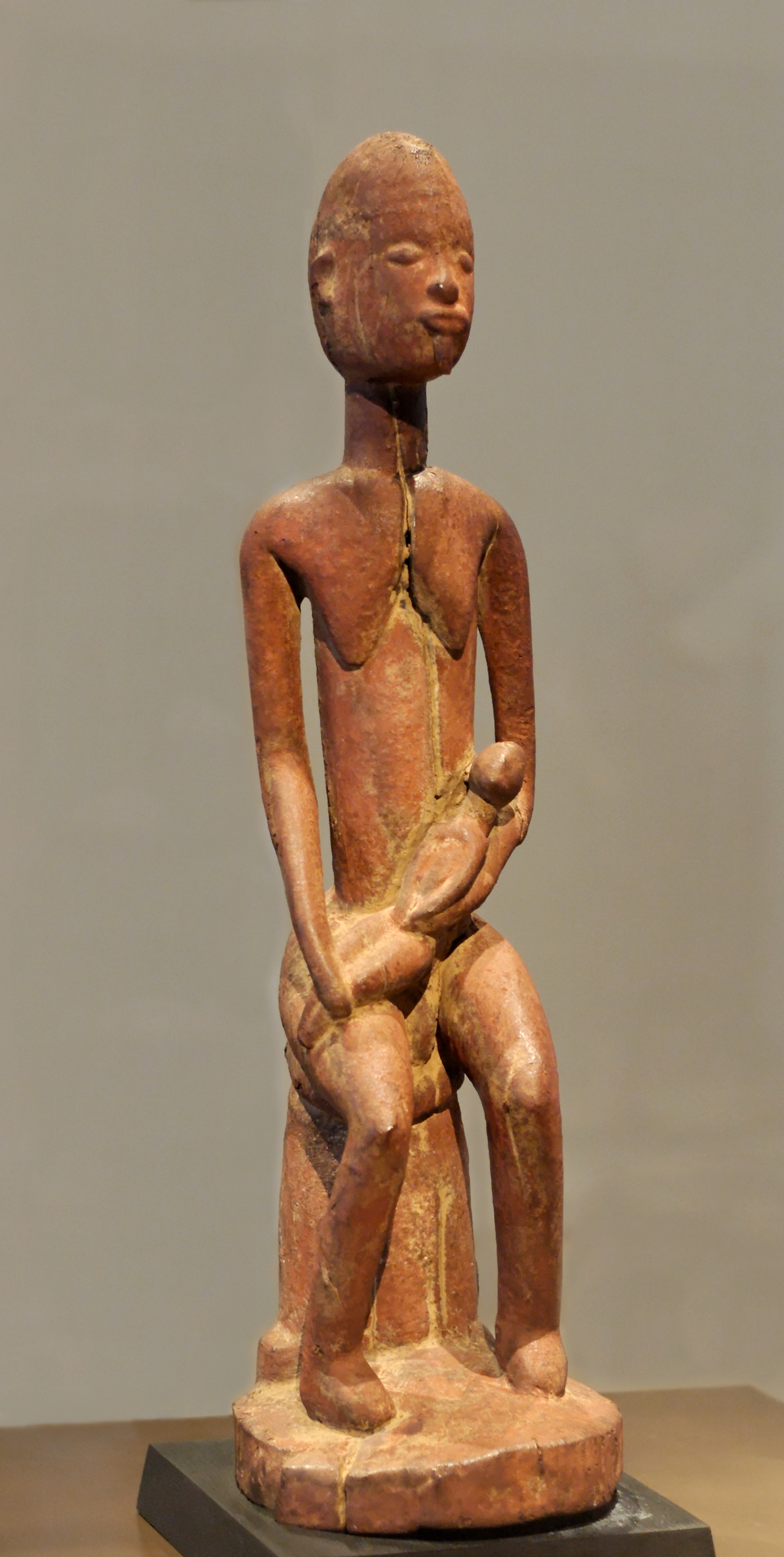 Mother and child. Wood, Dogon Plateau (Mali).